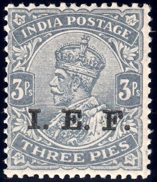 British India, military stamp, regular issue of 1911-13 overprinted ' I.E.F.', India Expeditionary Force. Catalogue: Sc. M34